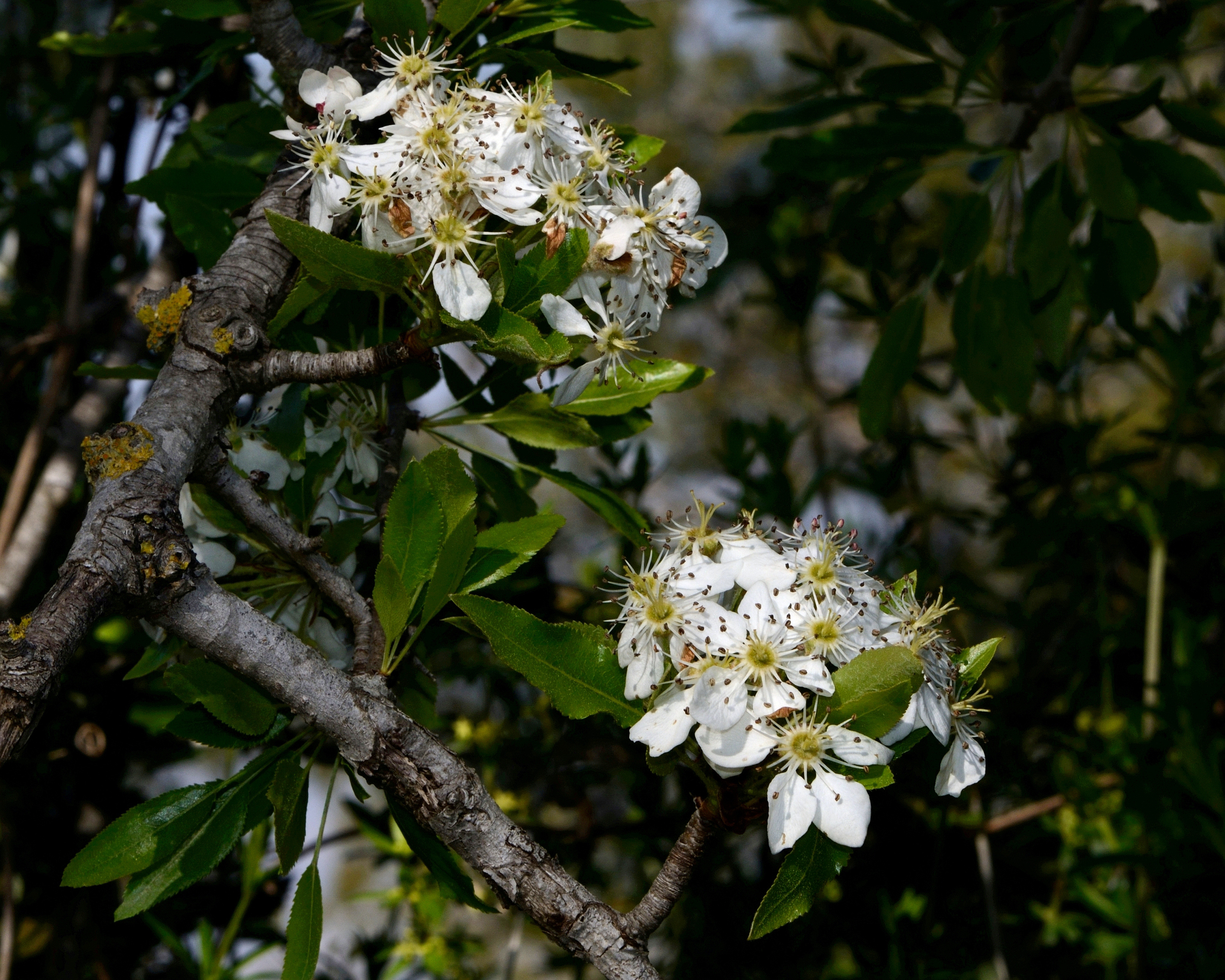 Pyrus syriaca Boiss., Mount Carmel, Israel, March 9, 2012.